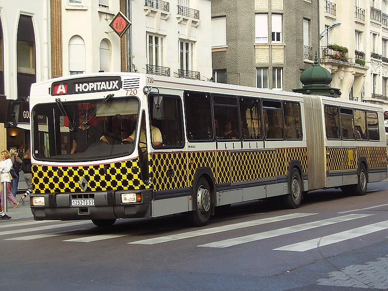 Renault PR180.2 from TUR Rheims network, old decoration.